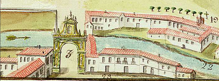 Detail of Plan of Valladolid by Diego Pérez of 1787-1788 in which are seen the Puerta del Campo to center, private houses to right below and the Convento y Hospital de San Juan de Dios to above right.